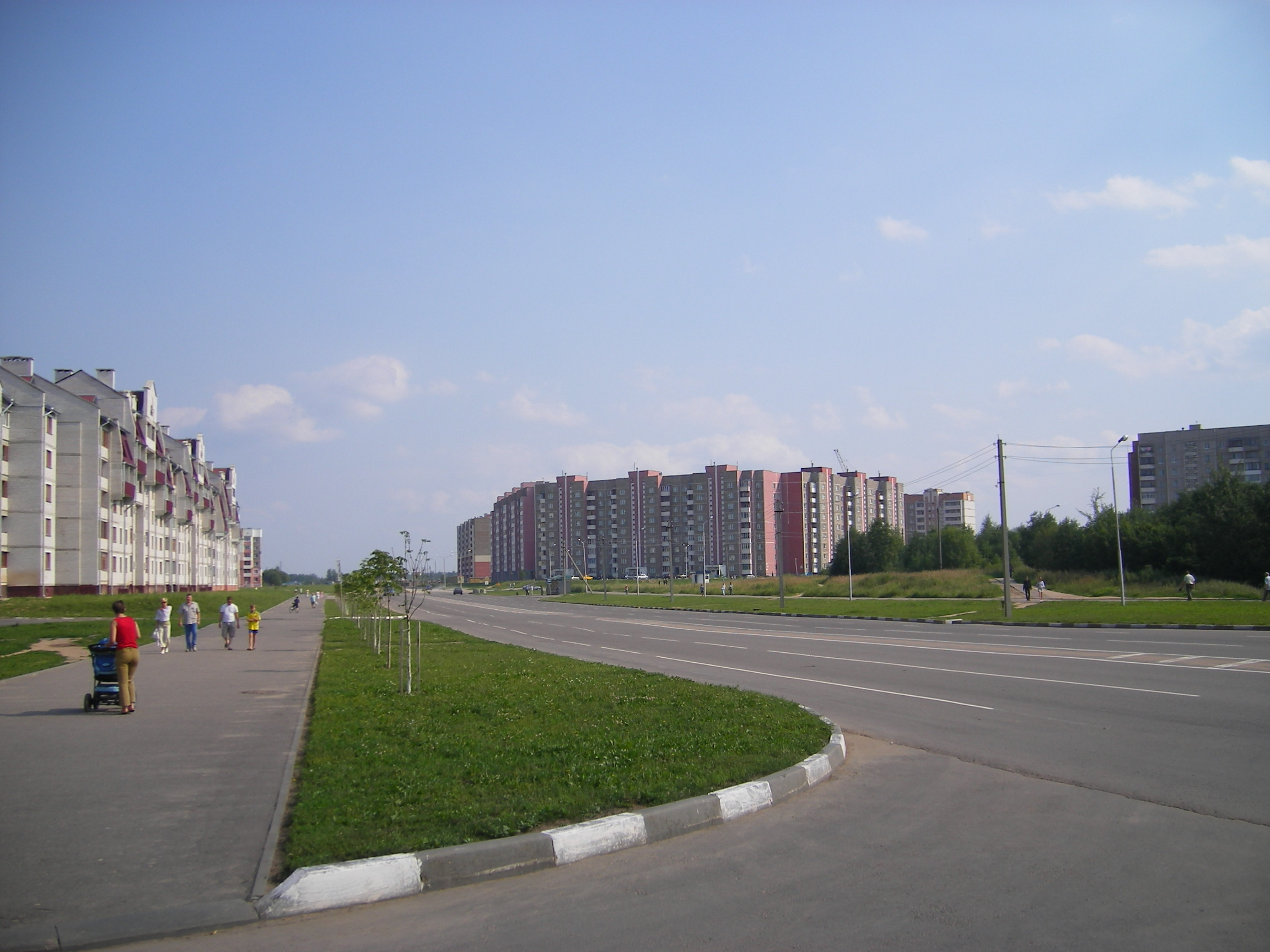 Navapolatsk, Southern Part (Molodezhnaya str.)